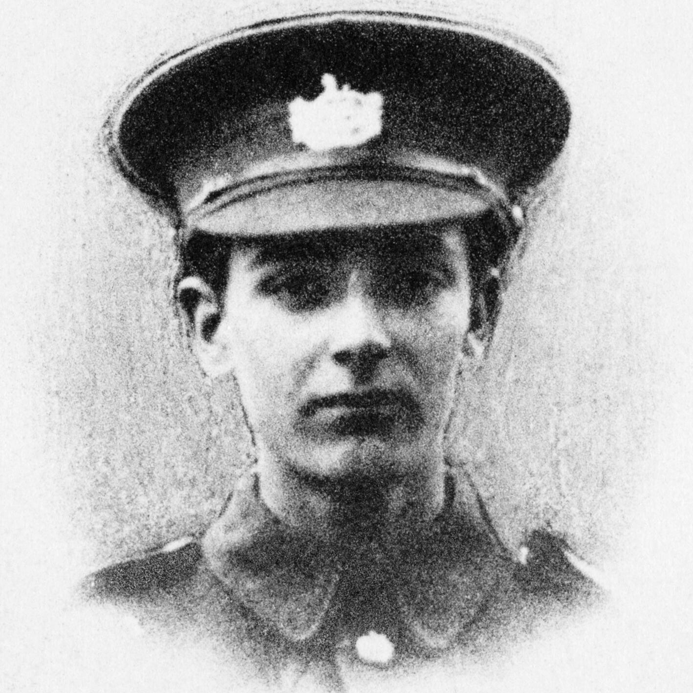 1/5 Battalion, Gloucestershire Regiment Pte Neale of 13 Platoon, D Company, was reported missing during the Battle of the Somme on 16 August 1916. He is commemorated on the Thiepval Memorial. Faces of the First World War Find out more about this First World War Centenary project at This image is from IWM Collections.